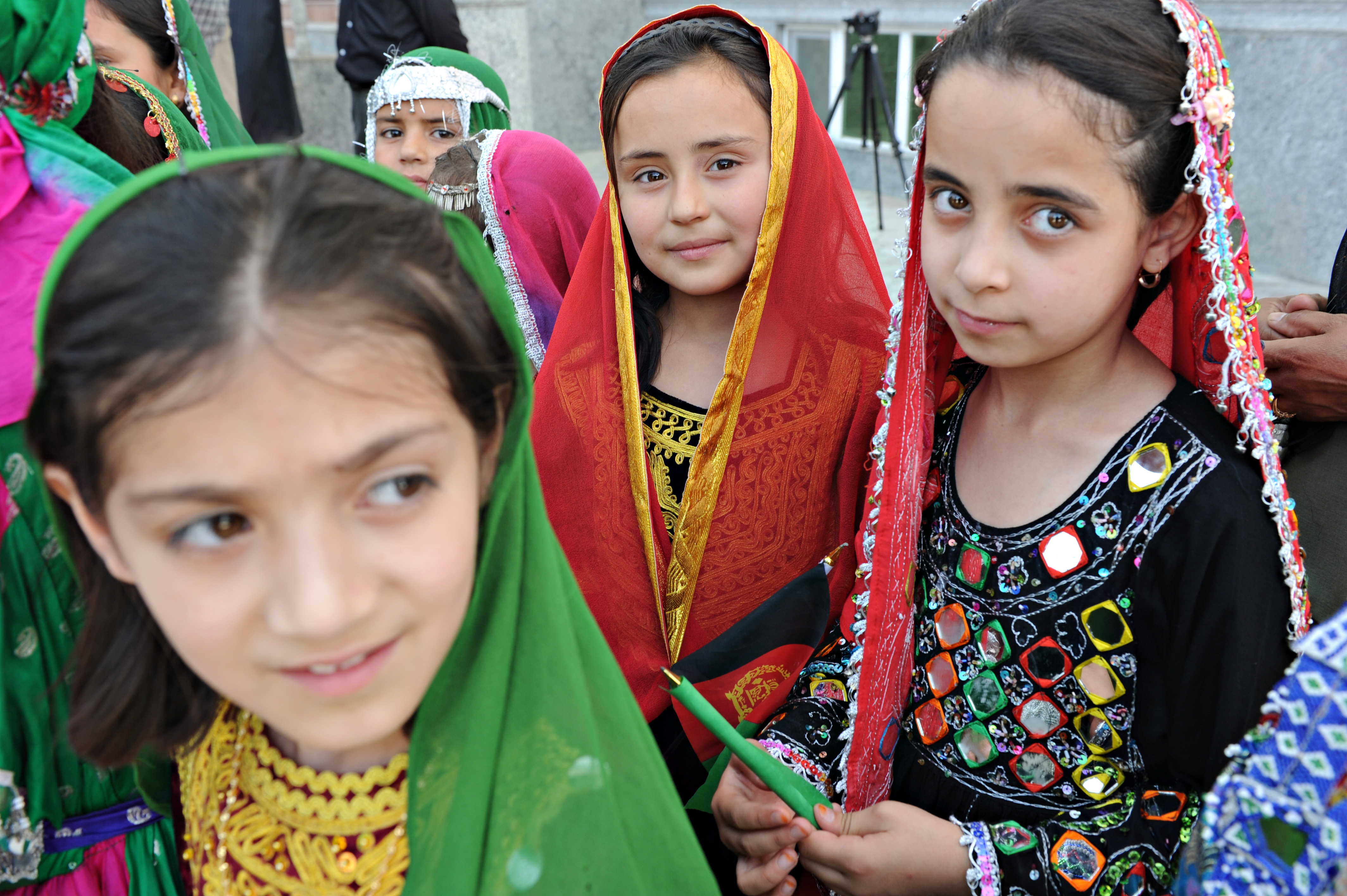 A group of young schoolgirls who sang for the arrival of U.S. diplomats in Mazar-i-Sharif, Balkh Province, Afghanistan.